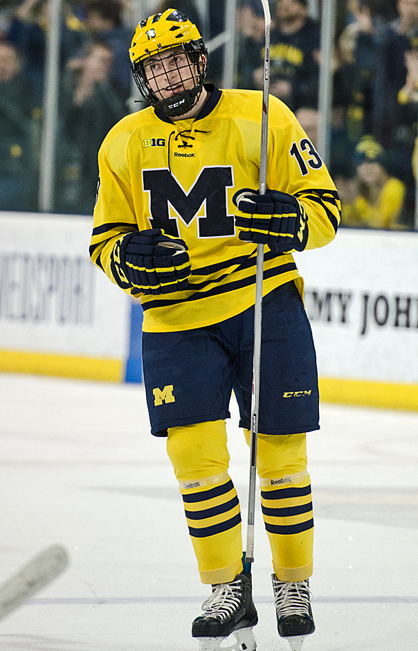 Michigan vs Ohio State, Feb. 22, 2015